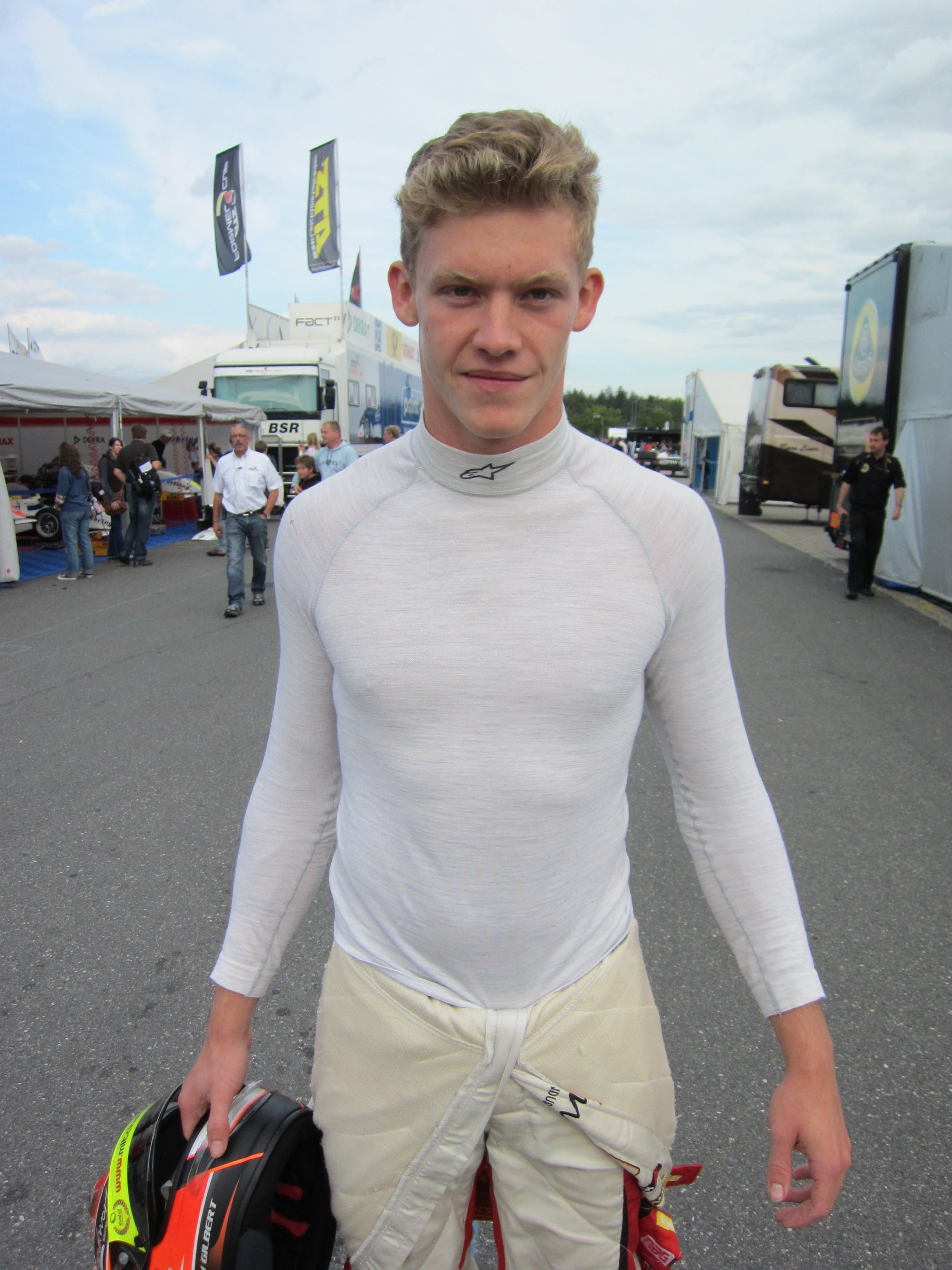 Mitchell Gilbert: the photo was taken during 2012's ADAC GT Masters race weekend at Hockenheim